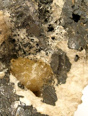 Matlockite Locality: Cromford, Matlock, Derbyshire, England, UK (Locality at ) Size: miniature, 3.4 x 3.2 x 2.1 cm Matlockite TYPE LOCALITY 1851, for the species....this is a superb, sharp, 9mm matlockite crystal in matrix of galena. Matlockite is exceptionally rare, especially in nice fat crystals such as this. While on close examination it has a contact on one corner, it is still impressive visually, and for the size and color.